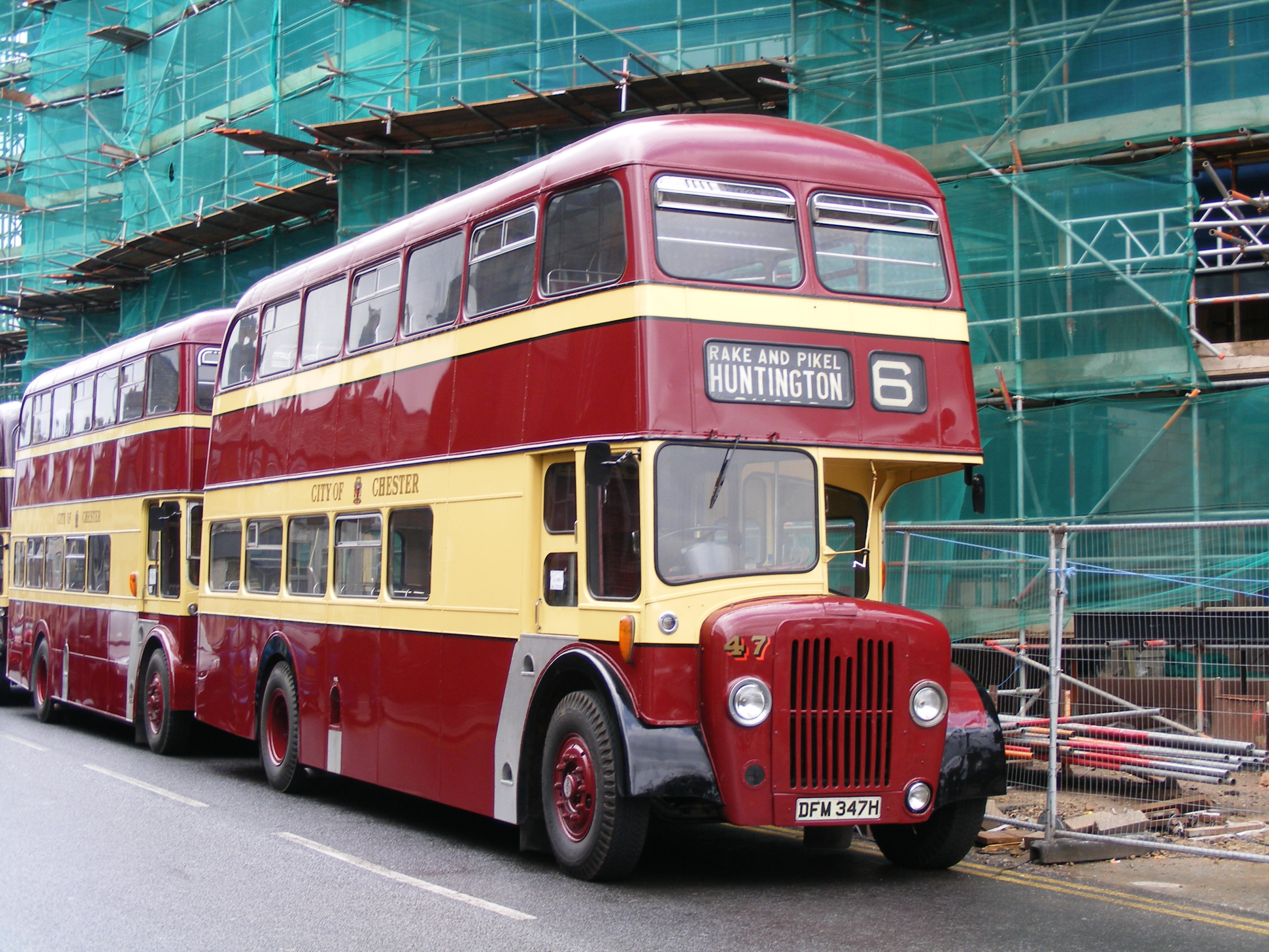 Chester City Transport 47 DFM347H a Northern Counties-bodied Guy Arab V. The last one to built for the UK market.